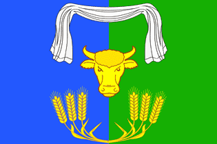 Flag of Pokrovskoe rural settlement, Krasnodar Territory, Russia